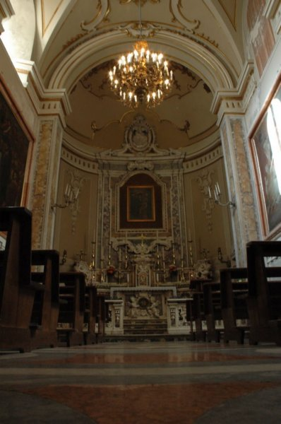 Holy Sacrament chapel in St. Cataldo cathedral Taranto